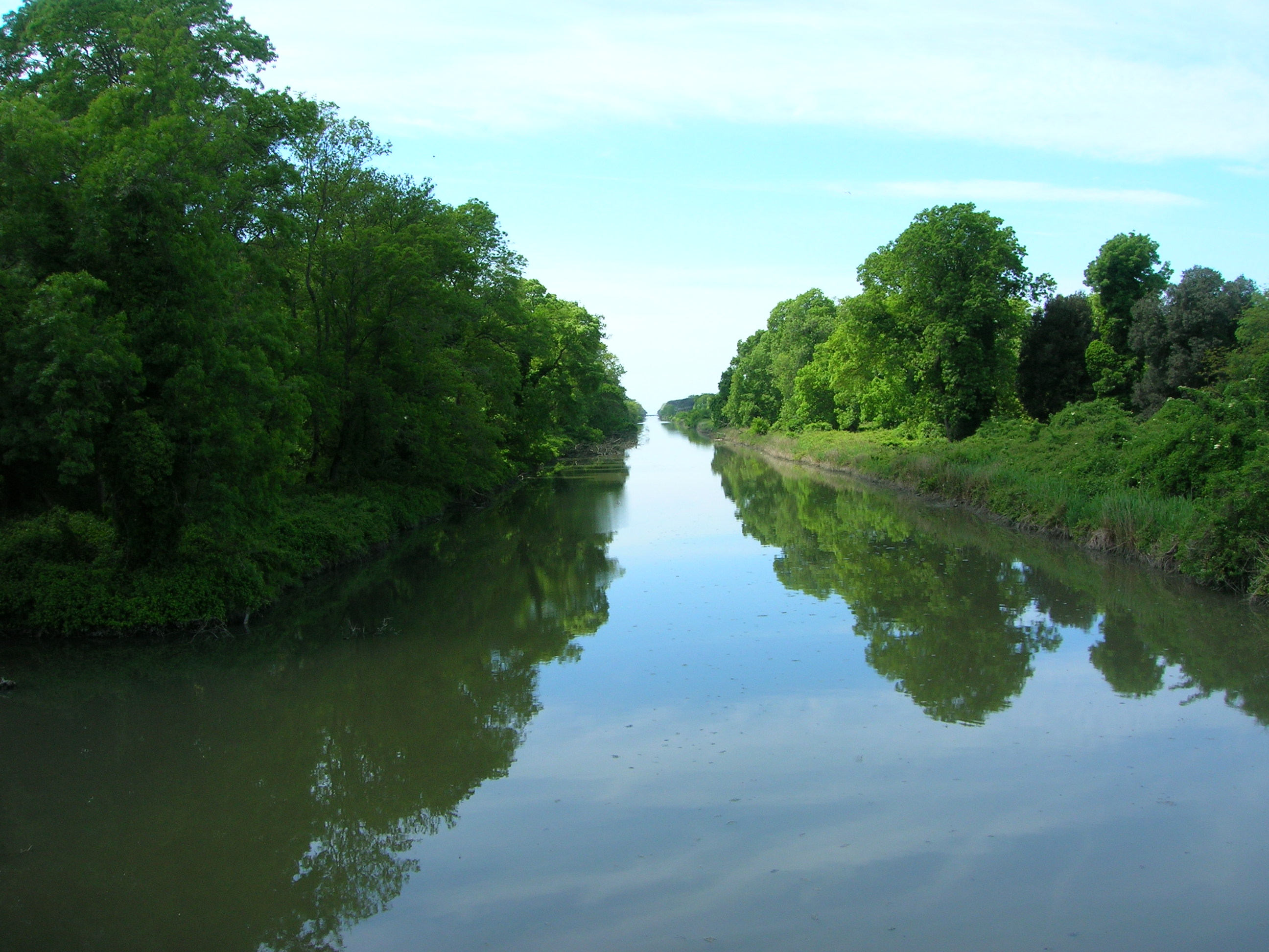 New Fiume Morto, in San Rossore, Pisa, Tuscany, Italy